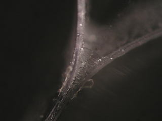 Fibrils appear when peeling an adhesive film.